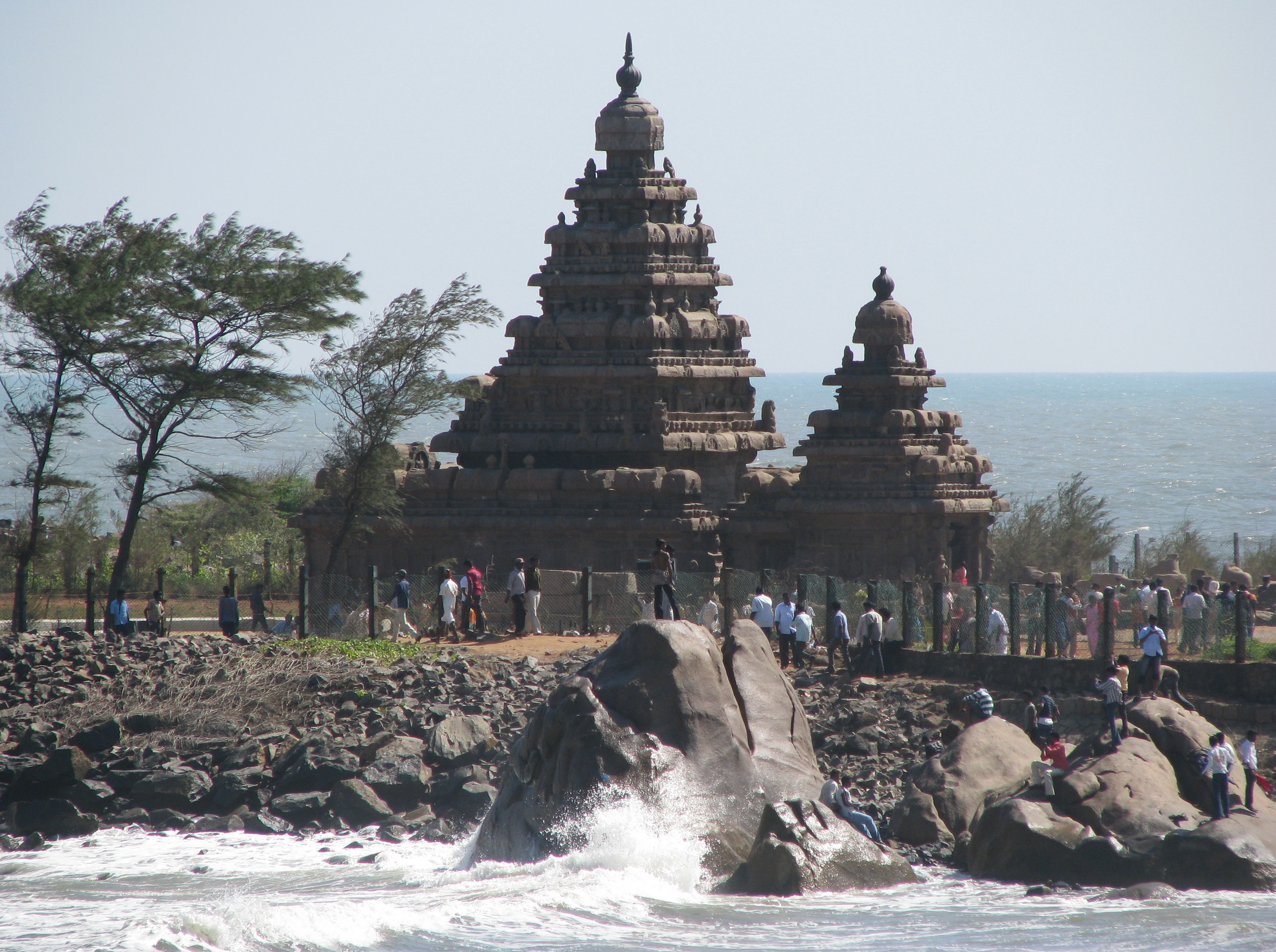 Photo of Shore Temple taken from beach in Mammalapuram, Tamil Nadu, India